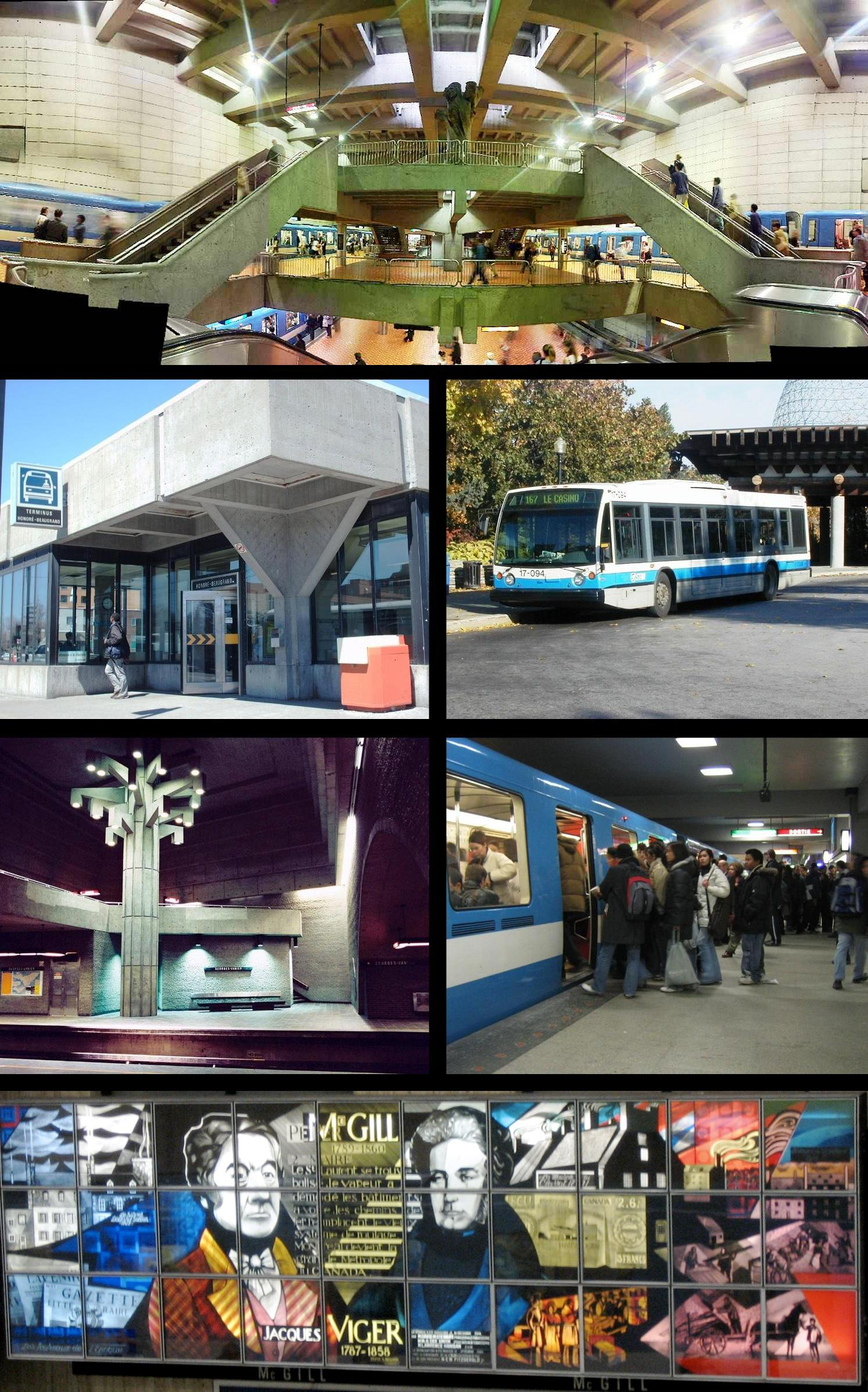 Mosaic made of 6 images of the Montreal metro and bus systems, stations and routes. All images were from wikipedia with GNU license, "own work" license and such.